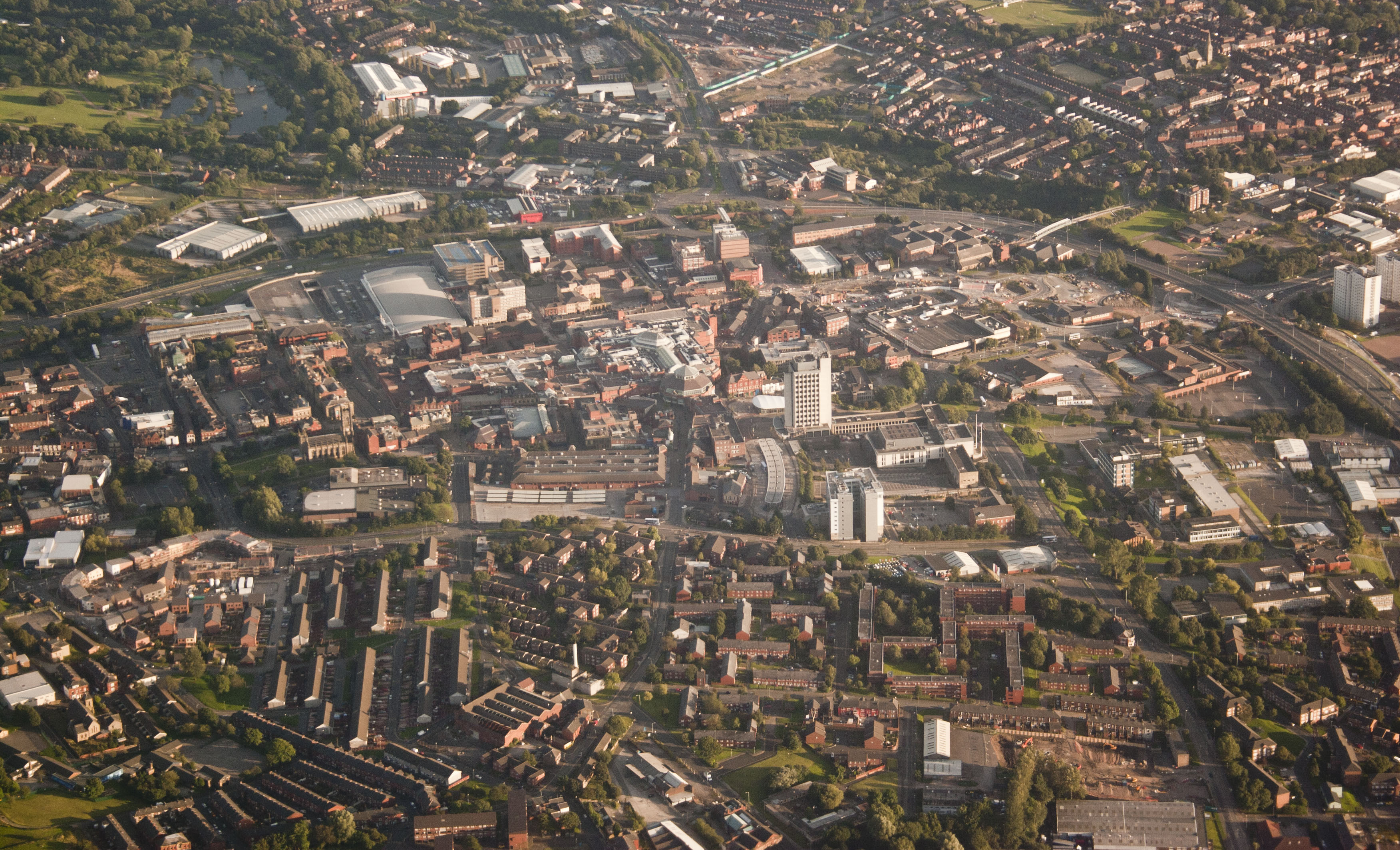 Oldham town centre, viewed from the north, from a passenger aircraft en route to Manchester Airport